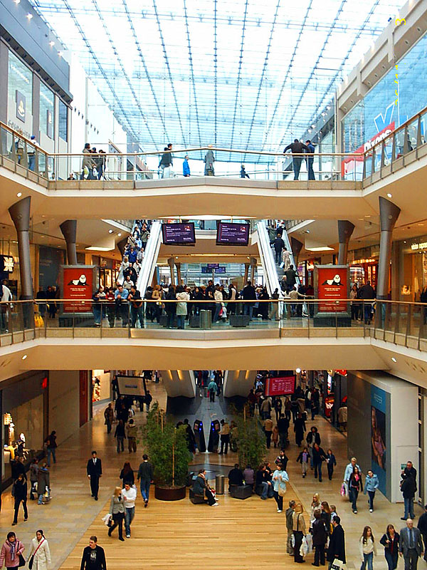 A picture of Interior of Bullring in Birmingham from English Wikipedia. Original description: The interior of the Birmingham Bullring shopping centre. Photo by G-Man Jan 2004.